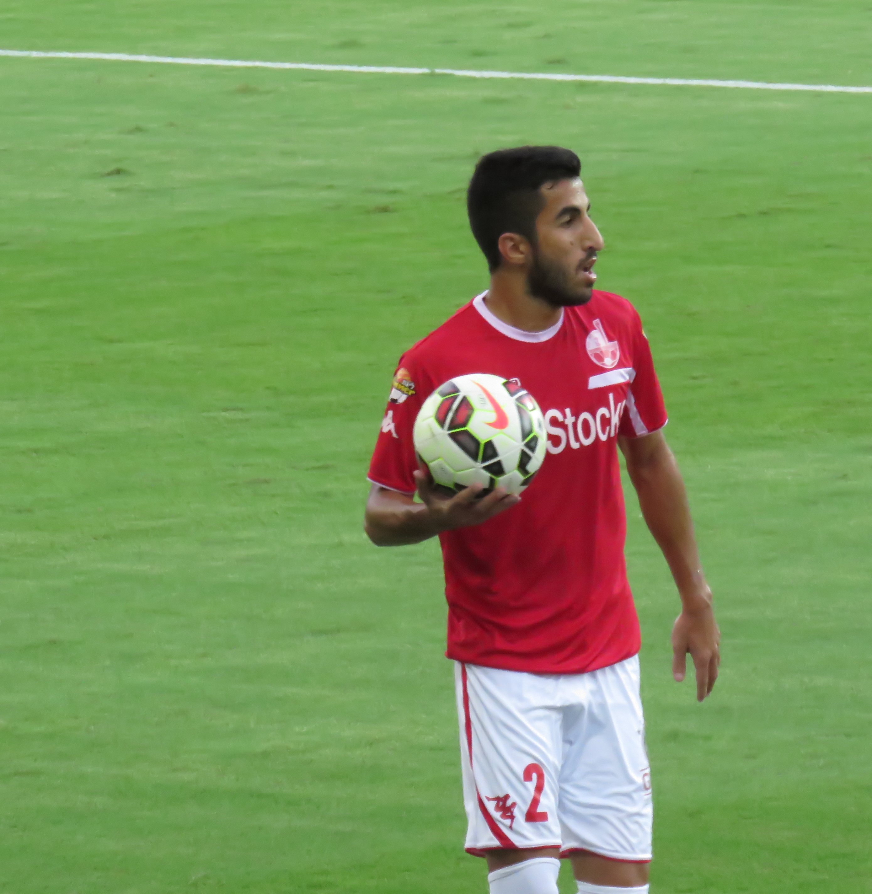 Hapoel Ra'anana vs. Hapoel Be'er Sheva - September 12, 2015